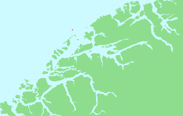 Locator map of Ona, Møre og Romsdal, Norway